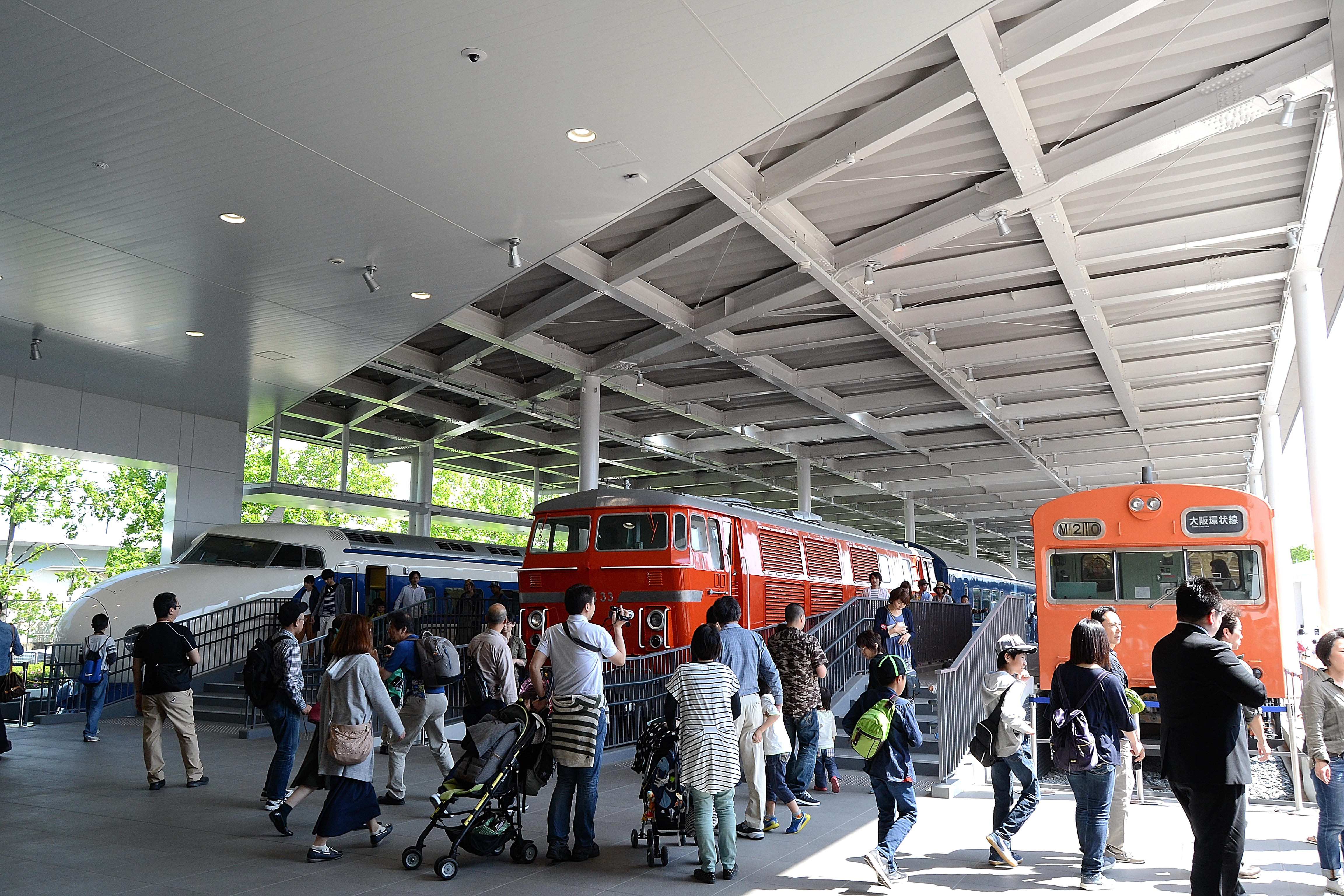 The Promenade exhibition area at Kyoto Railway Museum with 0 series shinkansen car 22-1, Class DD54 diesel locomotive DD54 33, and 103 series EMU car KuHa 103-1